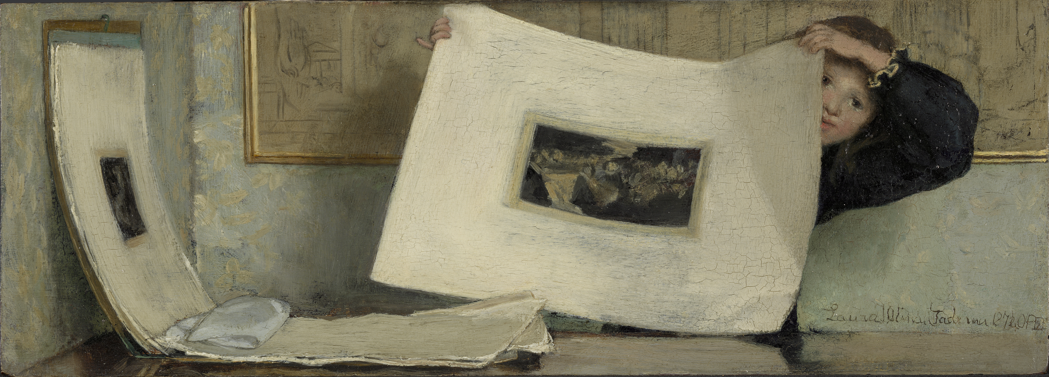 Anna, het zevenjarig stiefdochtertje van de schilderes, bladerend door een prentenmap.